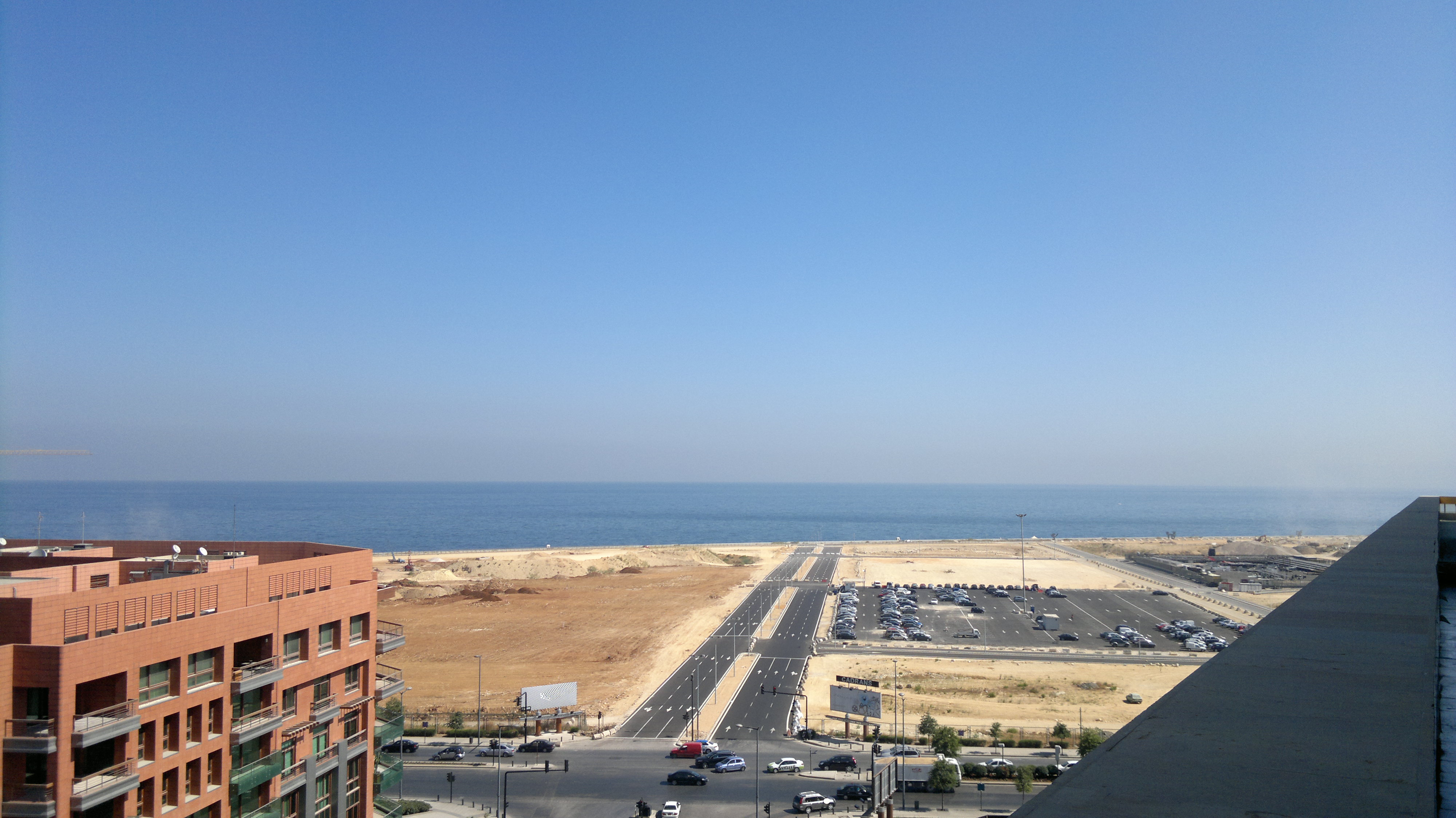 View from Nokia Beirut